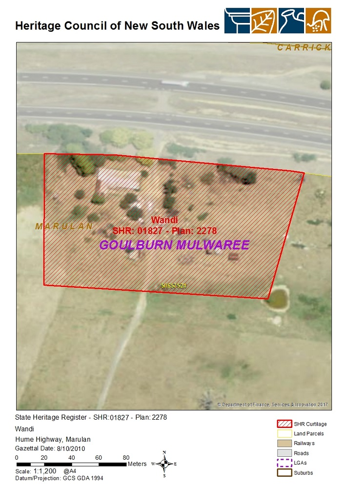 Wandi, Marulan: SHR Plan 2278